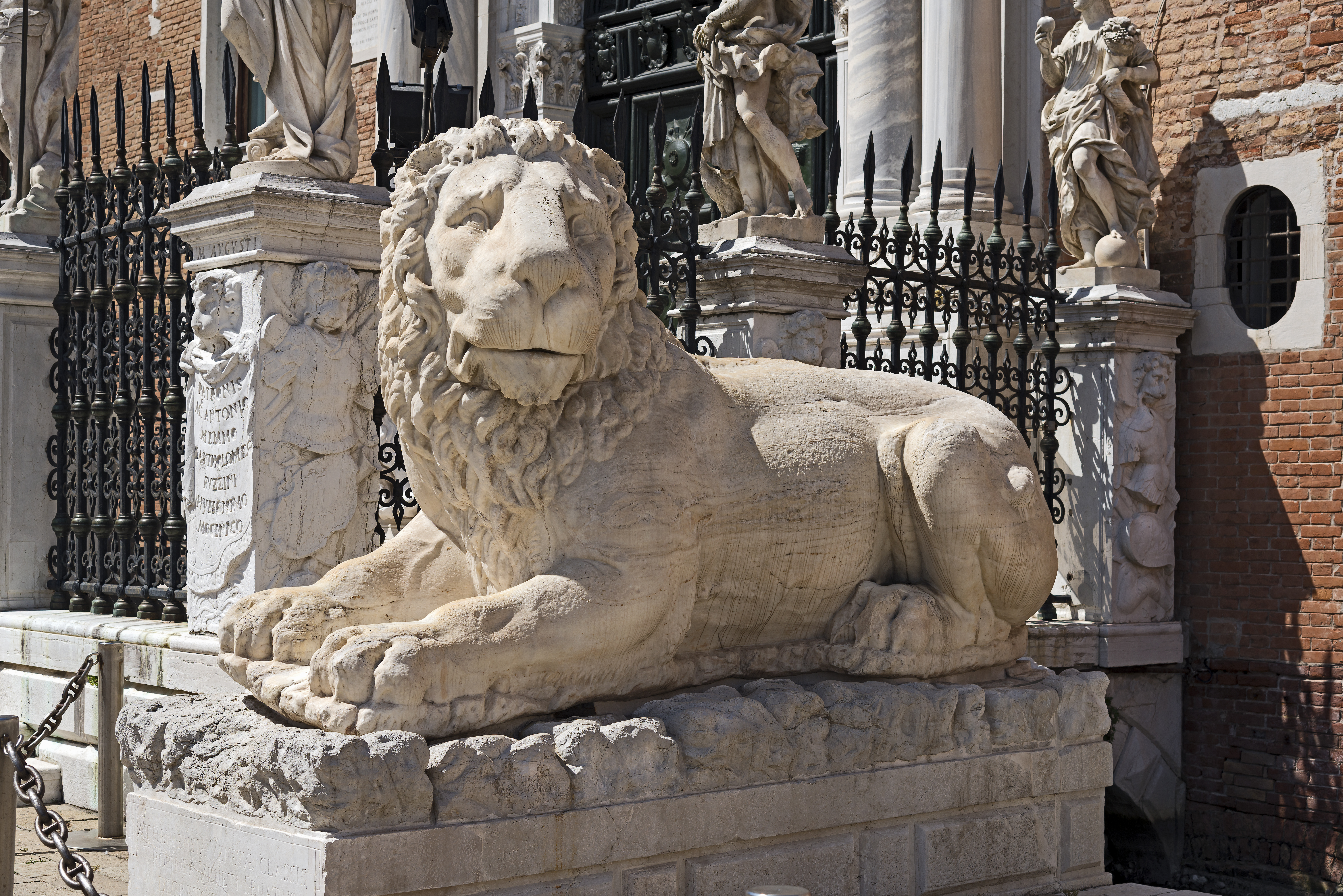 The first lion (The 2nd Greek lion) standing at the right side of the monumental entrance of the Arsenale in Venice is an Ancient Greek sculpture ("restored" in the late 17th century), originally at Lepsina on the road to Athens. It was brought to Venice by Francesco Morosini, who conquered Athens and the Peloponnesus in 1694.